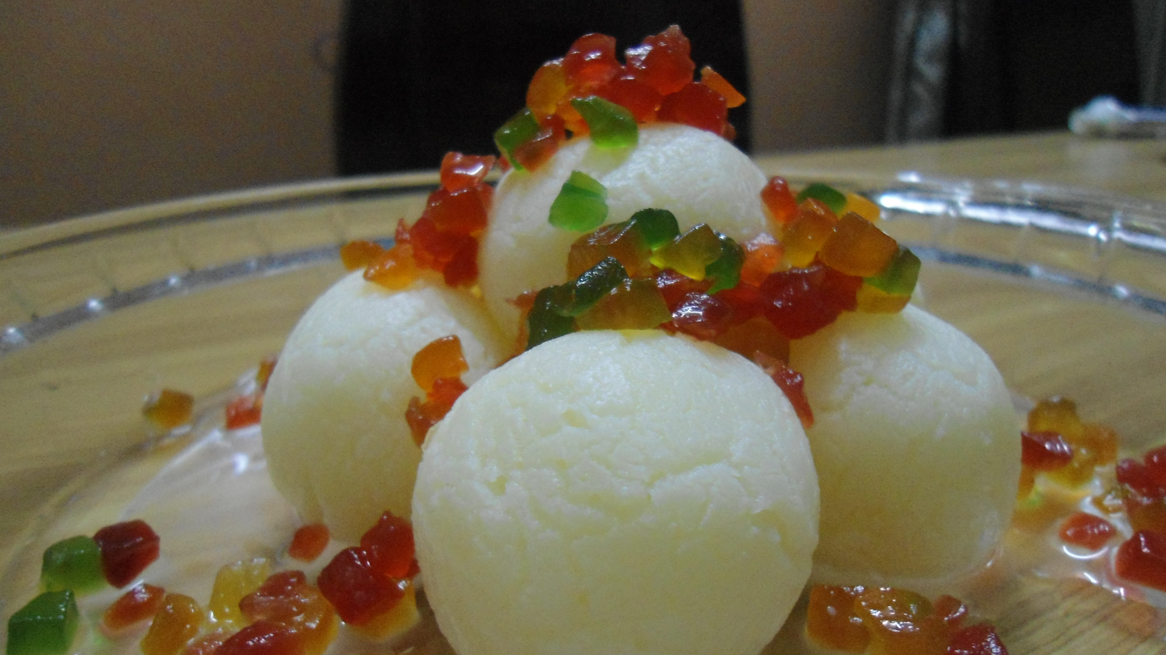 mouth watering rasgullas with combination of tutty fruity.Aroma of elaichi in tutty fruity gives it a unique combination